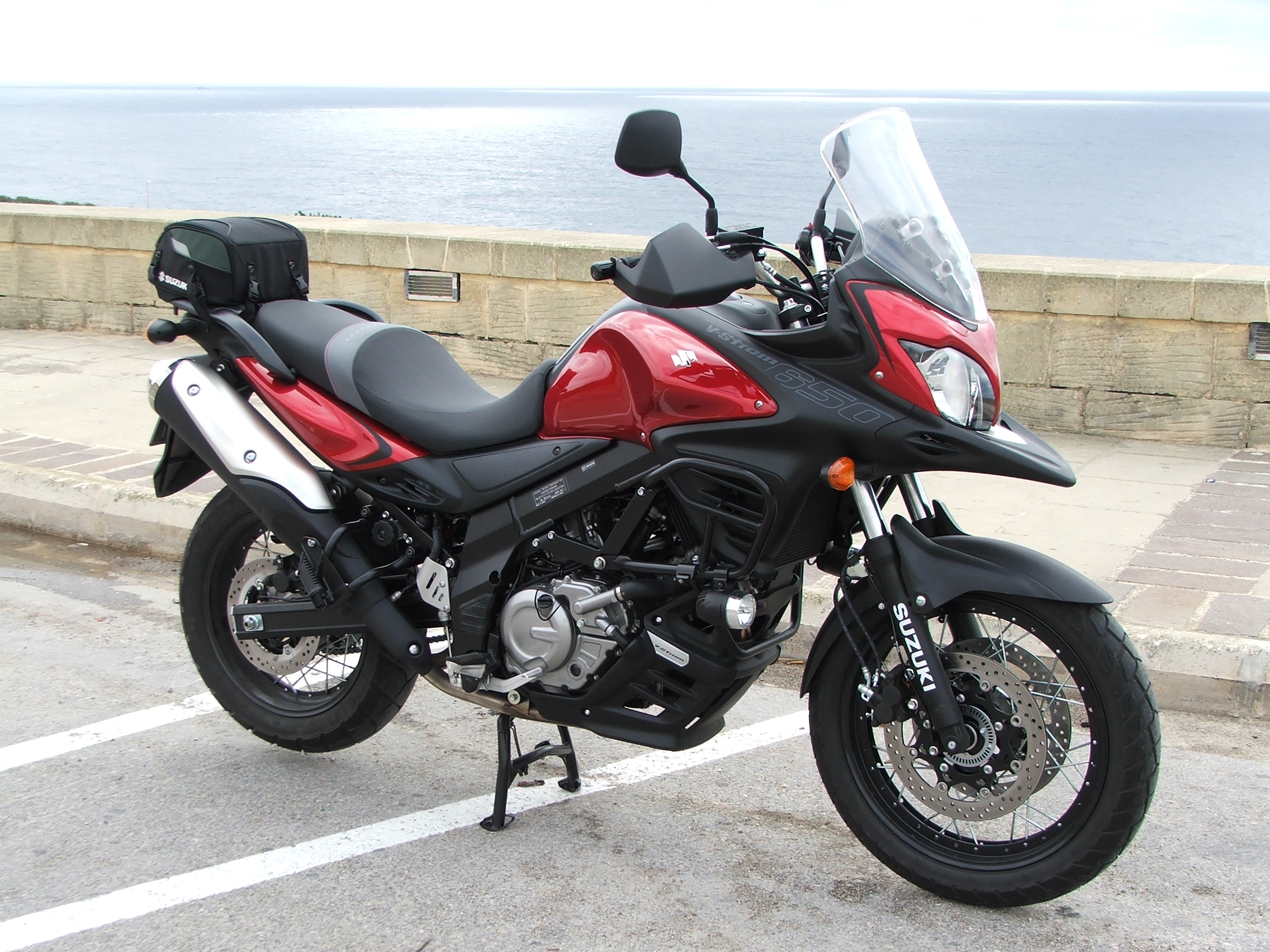 2015 Suzuki V-Strom 650XT ABS (Colour: Candy Daring Red)